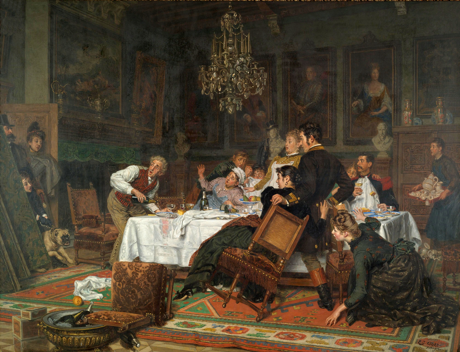 The surprise of the master's unexpected arrival